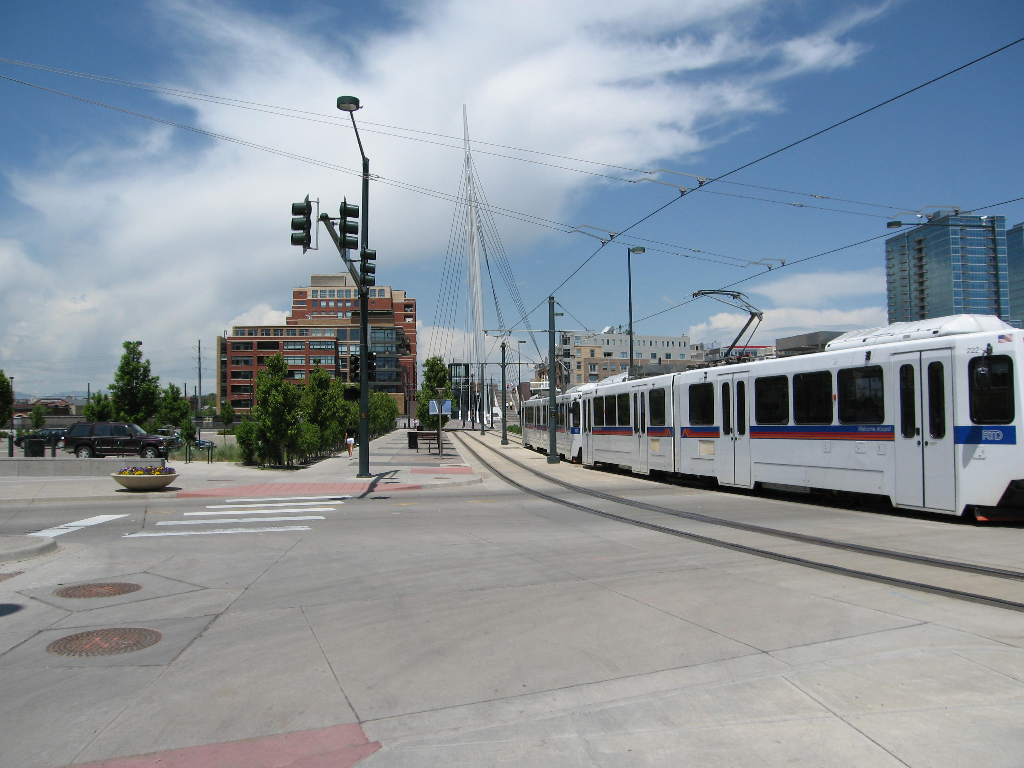 Personally taken by me (MobyLL), with a digital Camera, May 19, 2007